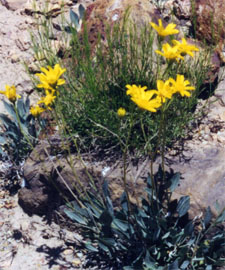 Platyschkuhria integrifolia. Arches National Park, Utah, USA.